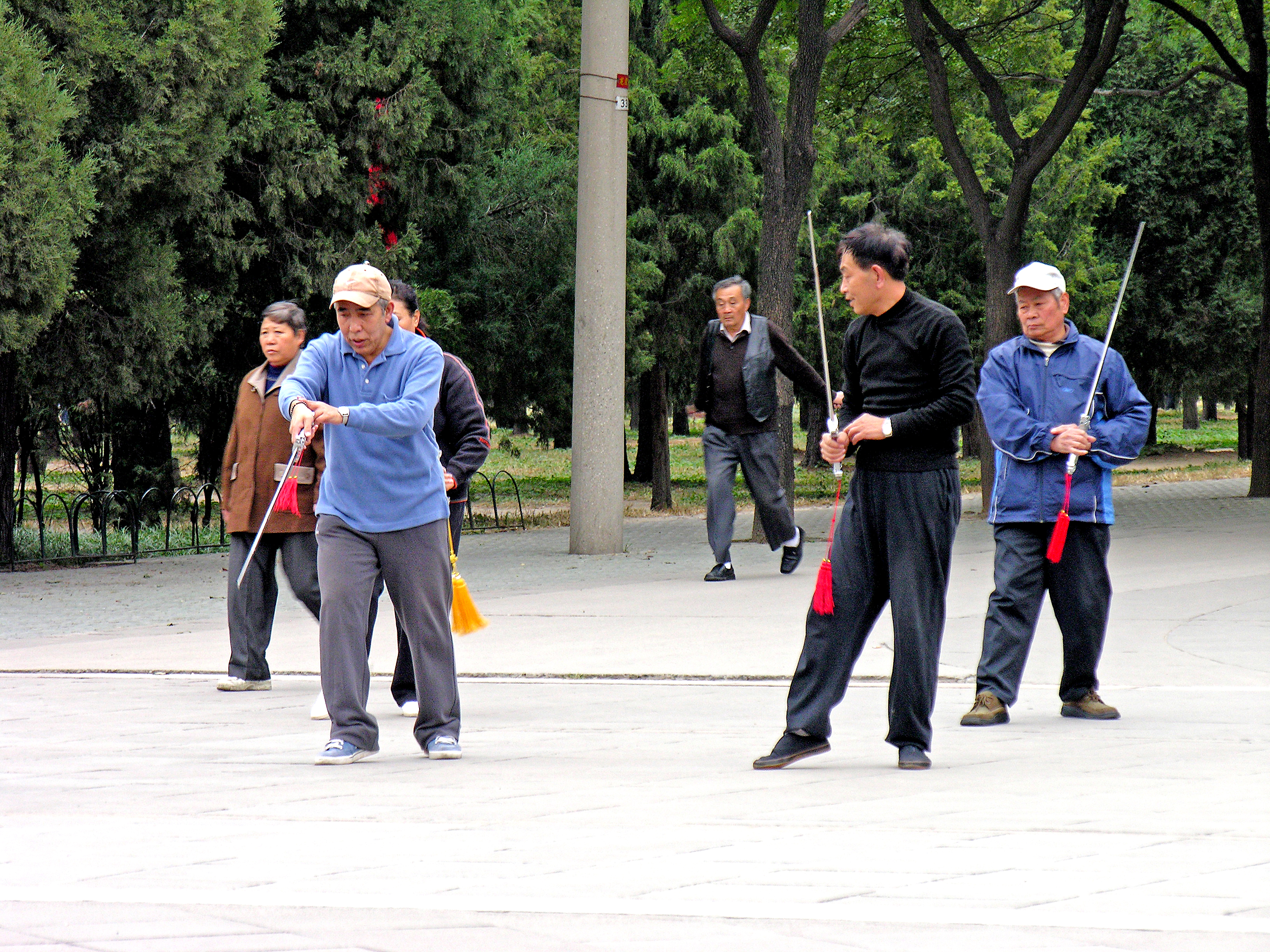 People were practicing many forms of exercise in the area.